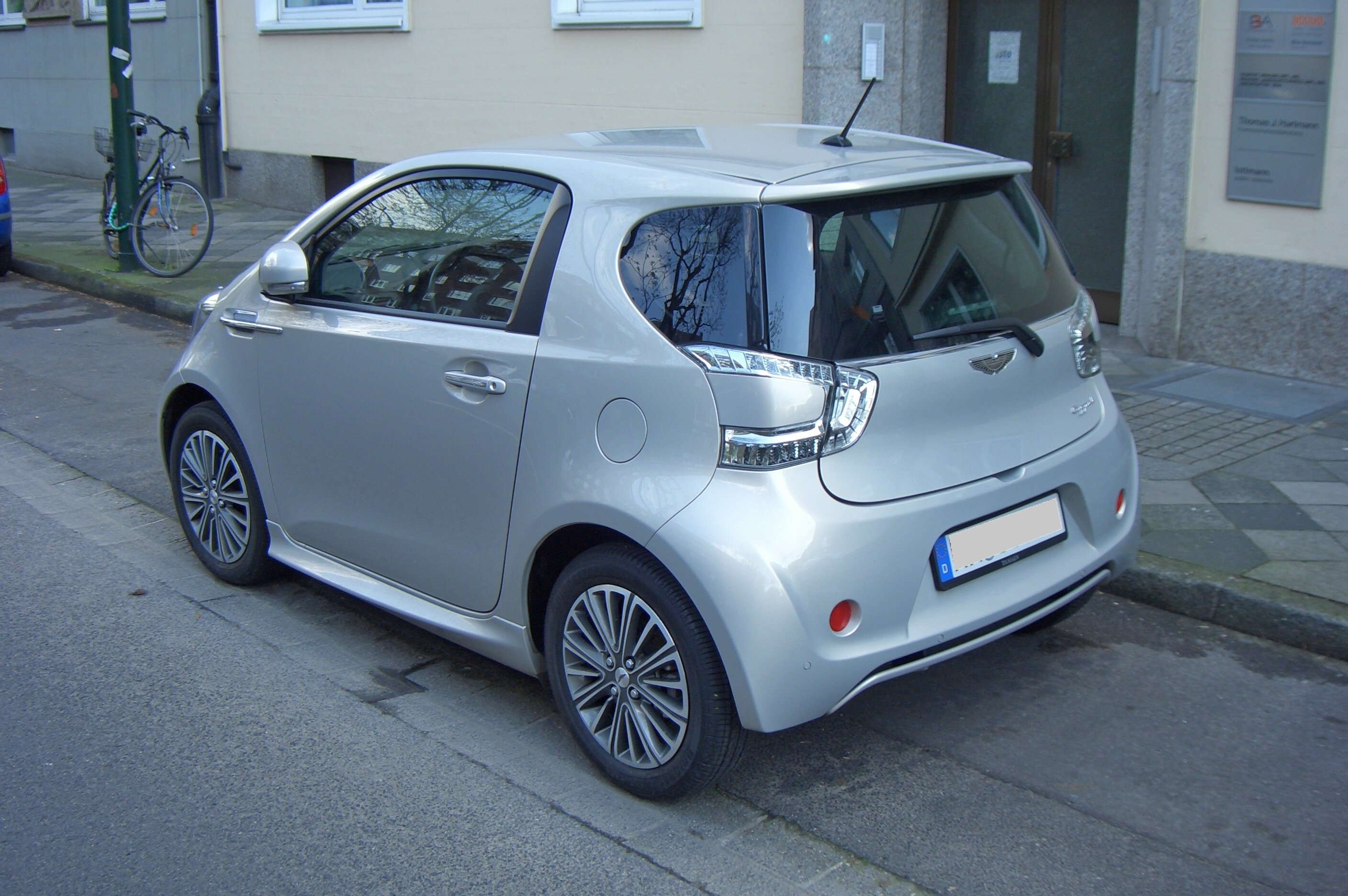 Aston Martin Cygnet (Basis Toyota IQ), from 2011